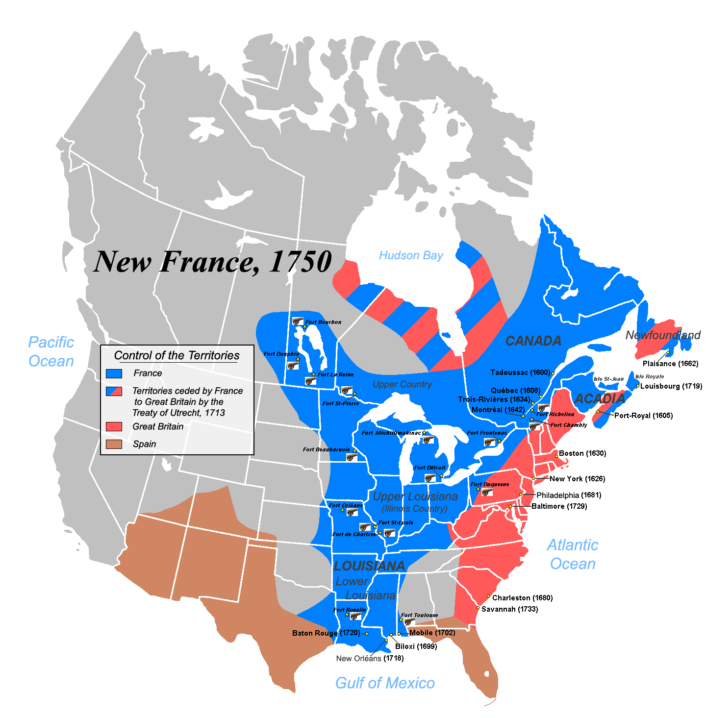 Map of the New-France about 1750.